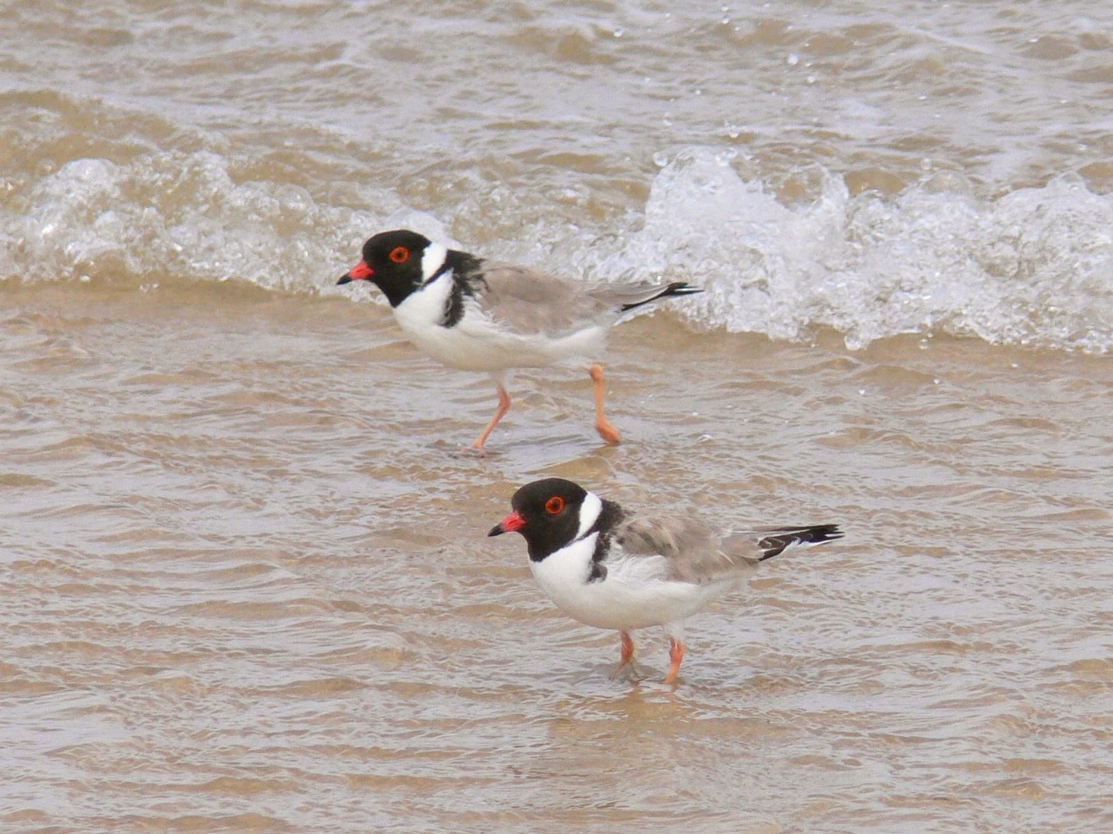 A pair of Hooded Plovers, Thinornis rubricollis. Taken in South-eastern Australia.